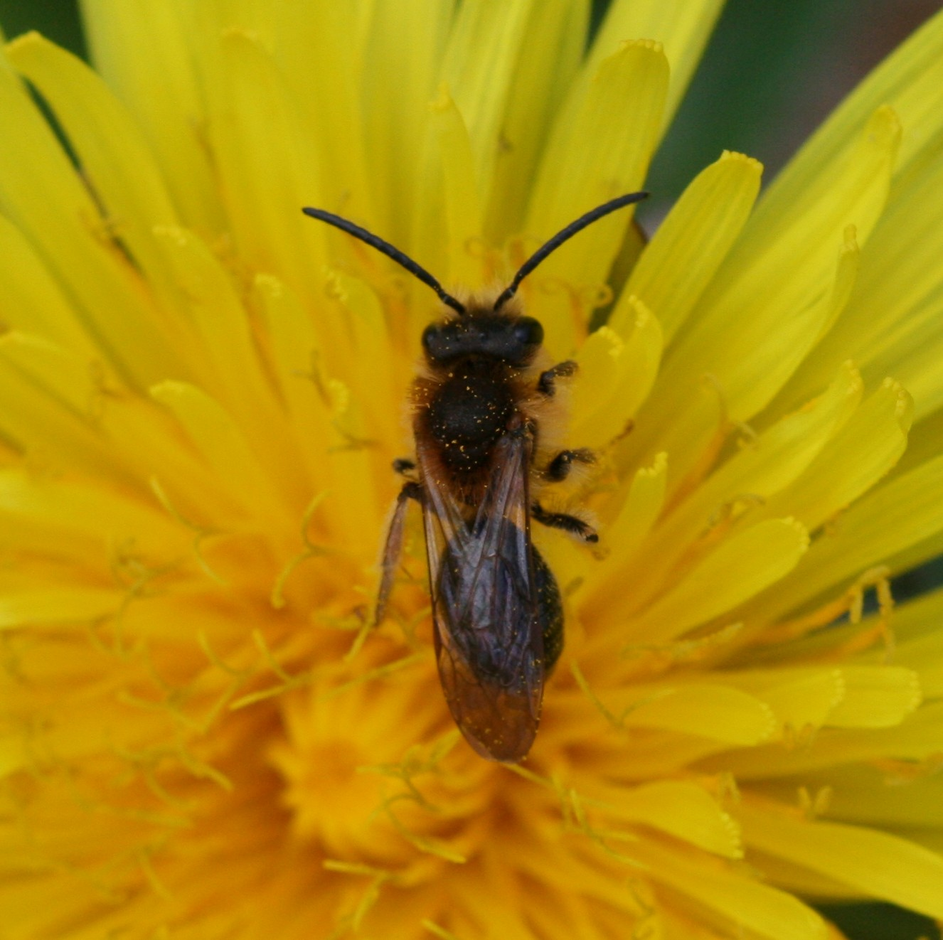 Andrena (Simandrena) dorsata, a solitary bee.